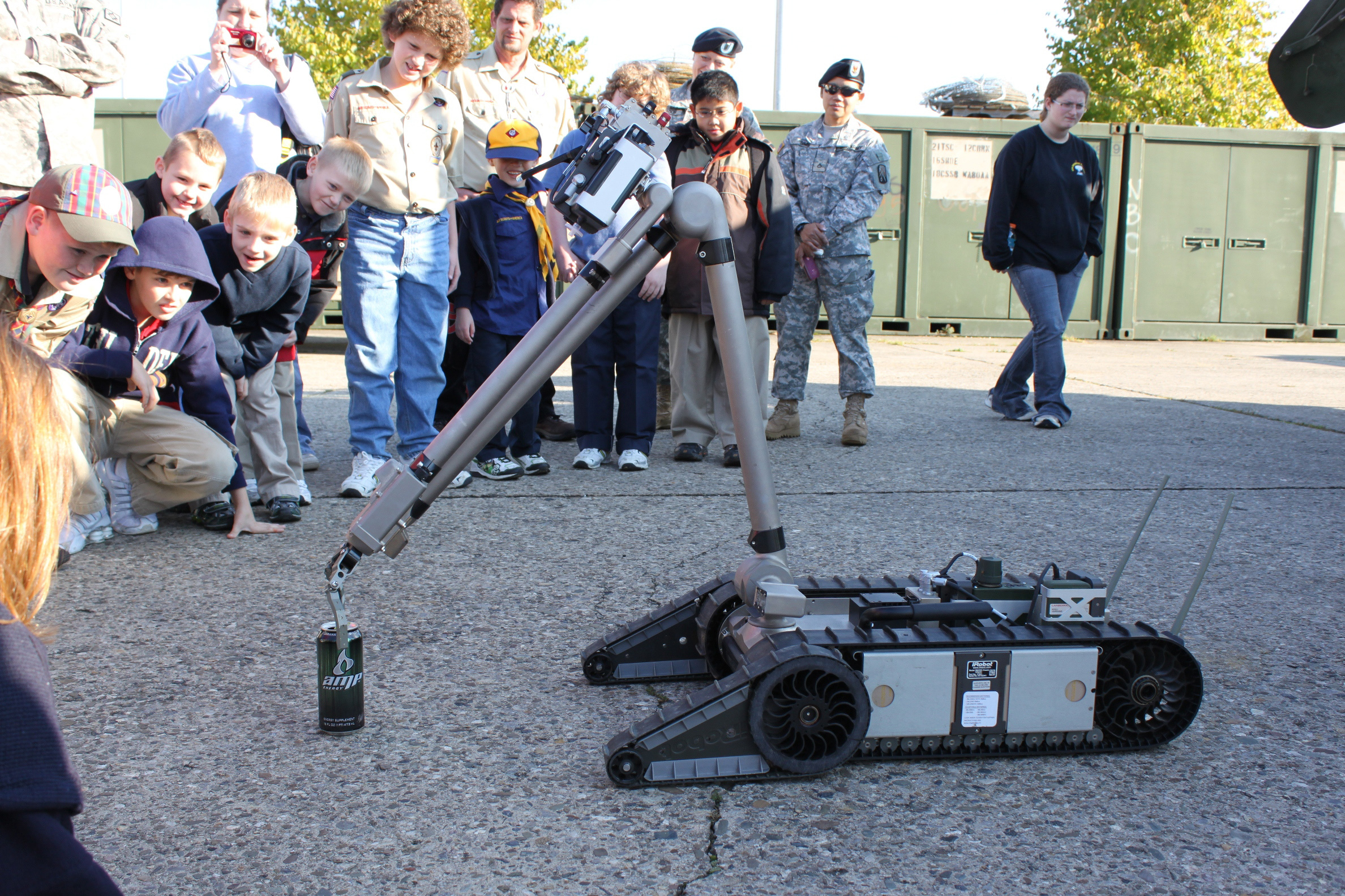 Soldiers from the 12th Chemical Company shows off their PackBot 510 to the Boy Scouts of Troop 55 and Cub Scouts Pack 630 of Schweinfurt, Germany, in the motor pool on Conn Kaserne.